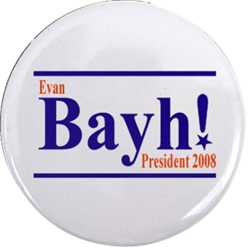 Evan Bayh presidential campaign, 2008